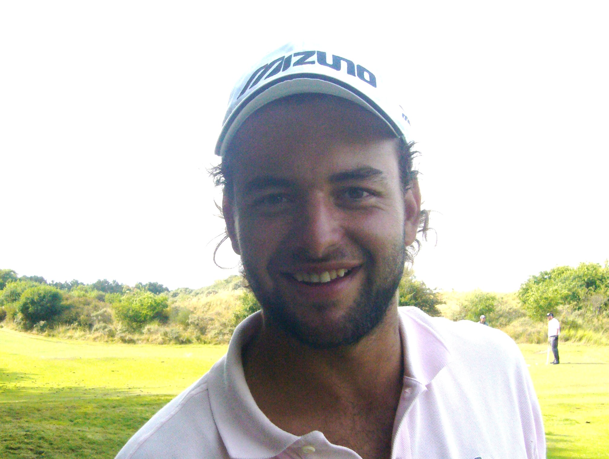 Carlos del Moral, professional golfer from Spain